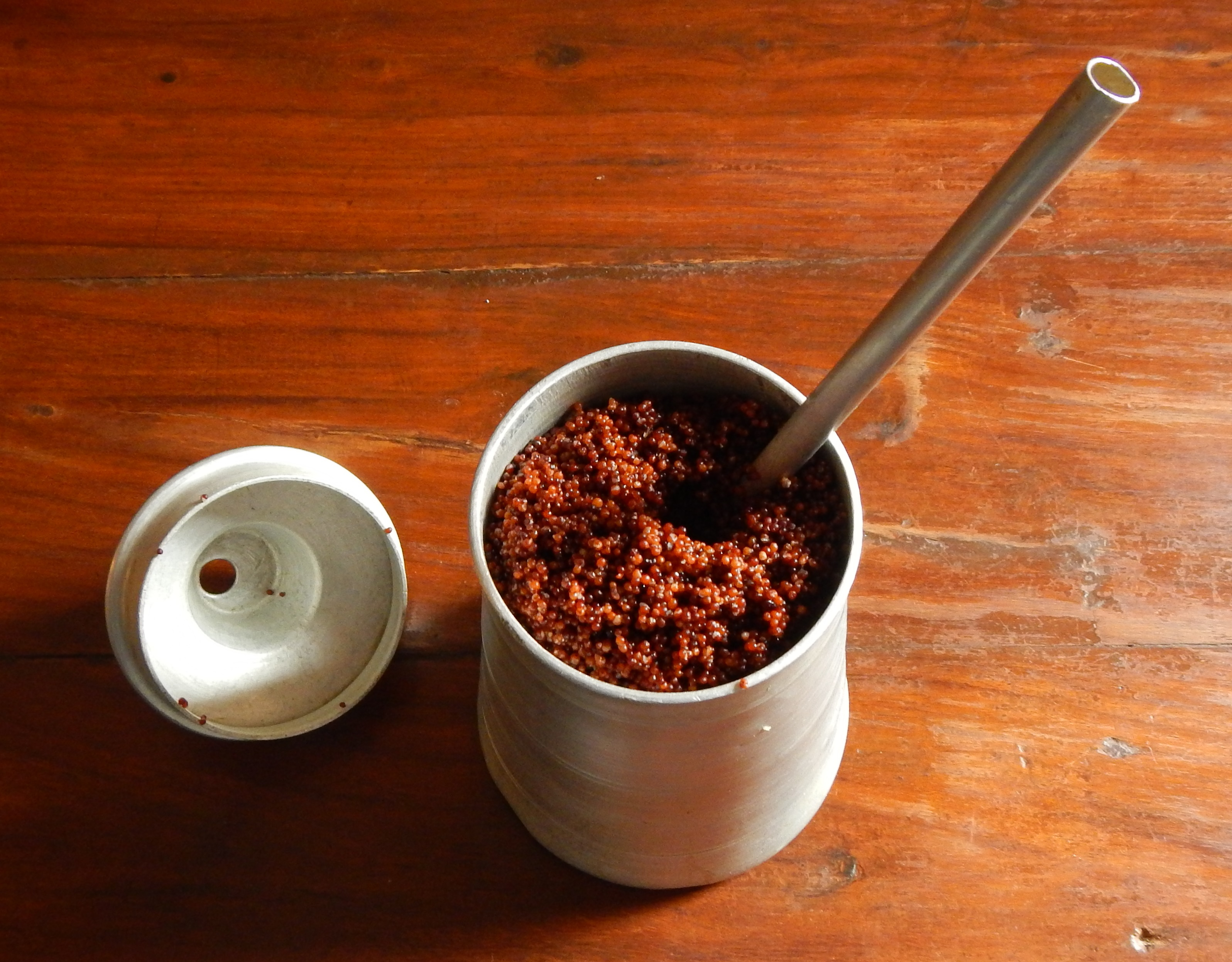 A fermented millet drink known as Tongba as found in Tibet and Nepal.